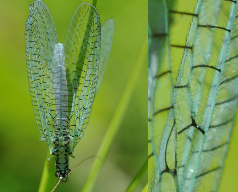 Chrysopa perla in Kirchwerder, Hamburg.